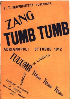 Front cover of the book/poem Zang Tumb Tumb by Filippo Tommaso Marinetti (en:1876–en:1944), published in en:1914 in Italy.